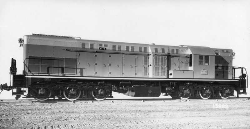 Baldwin (A1A)(A1A) CFA 040 DA 5, class 1 to 15.